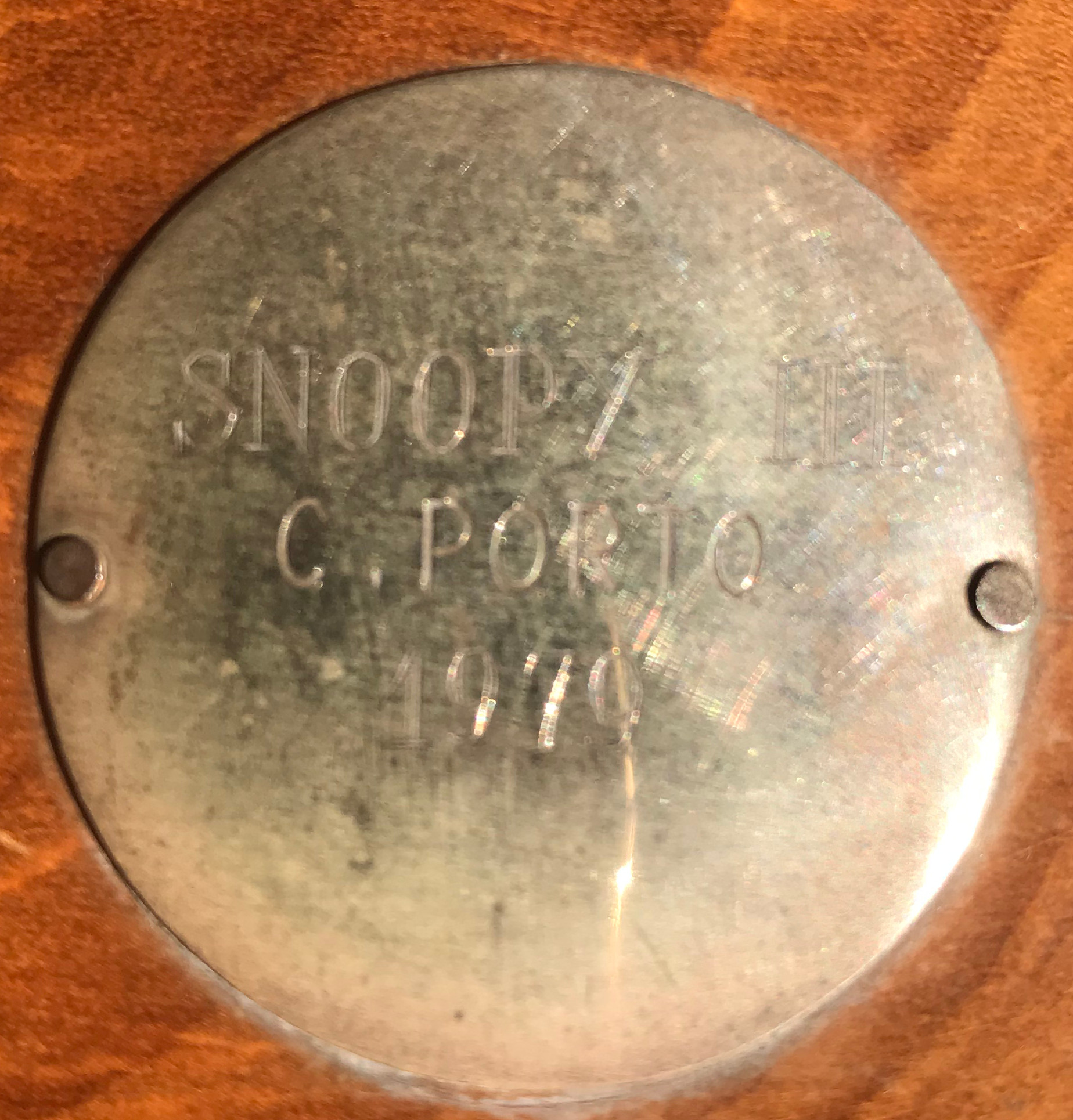 Patch on the Trophy